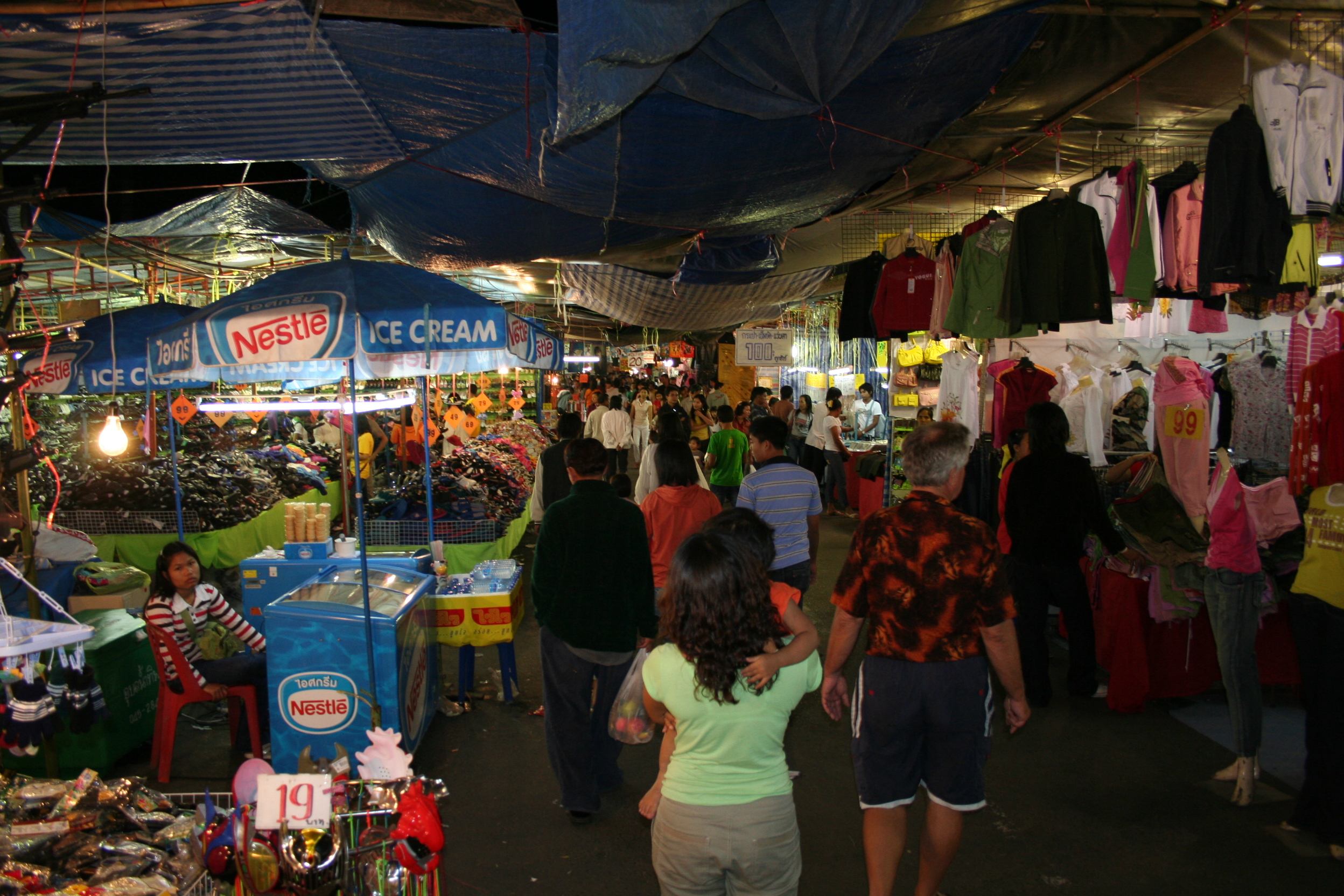 Market in Ubon Ratchathani, Isan, Thailand.